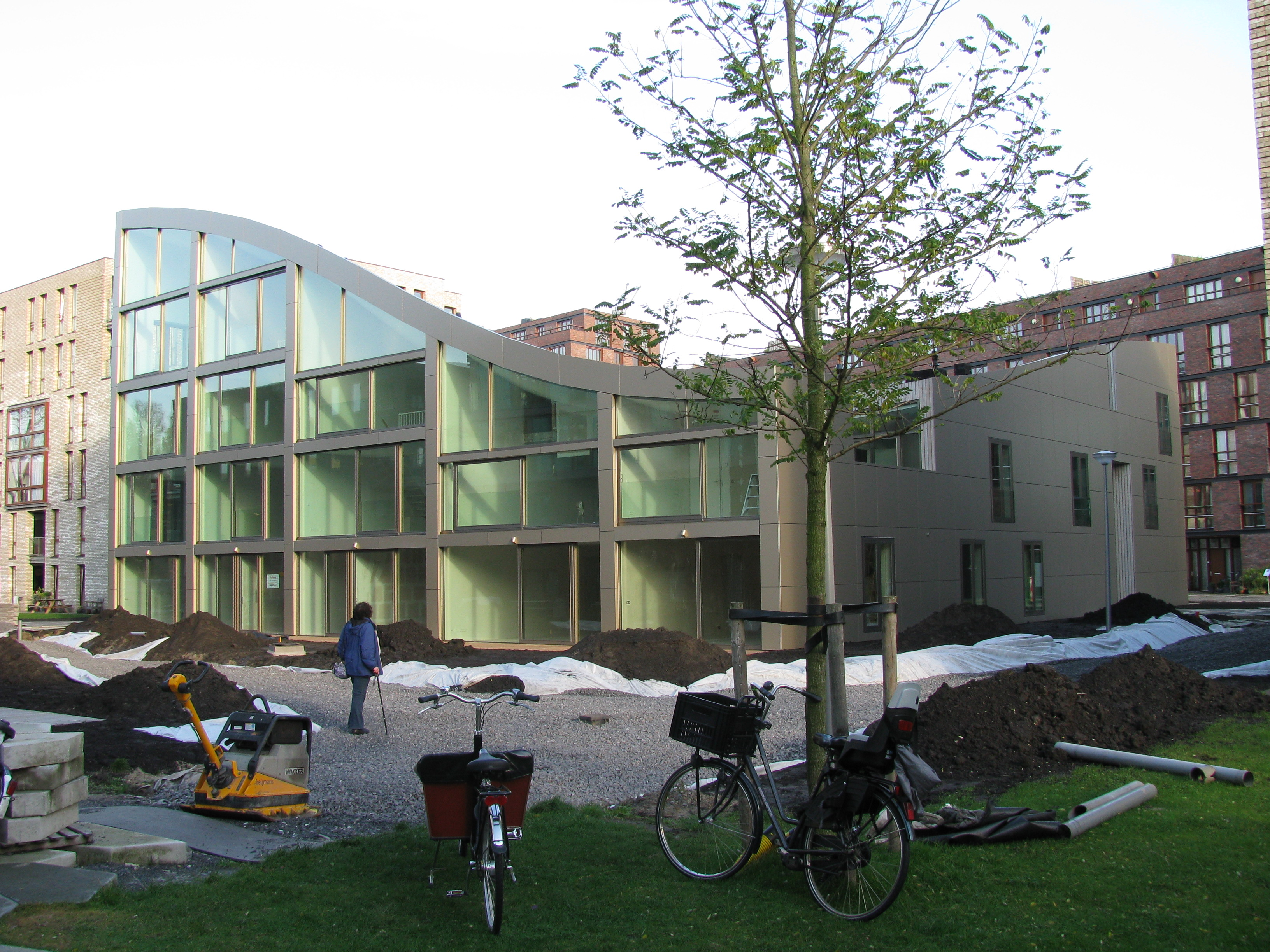 Verdana (Blok K) Funen in Amsterdam